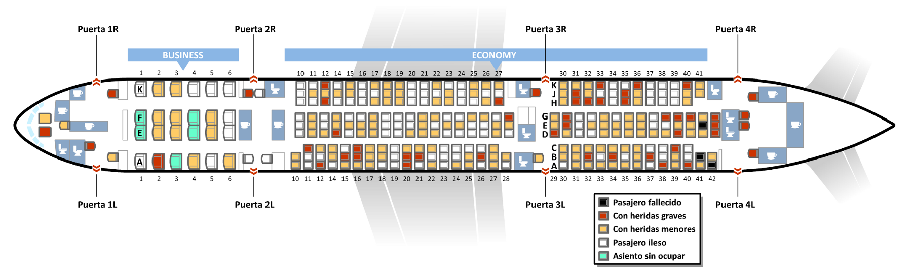 Spanish seat map of Asiana Airlines flight 214 from July 6, 2013, with the location on the plane of the accident victims.